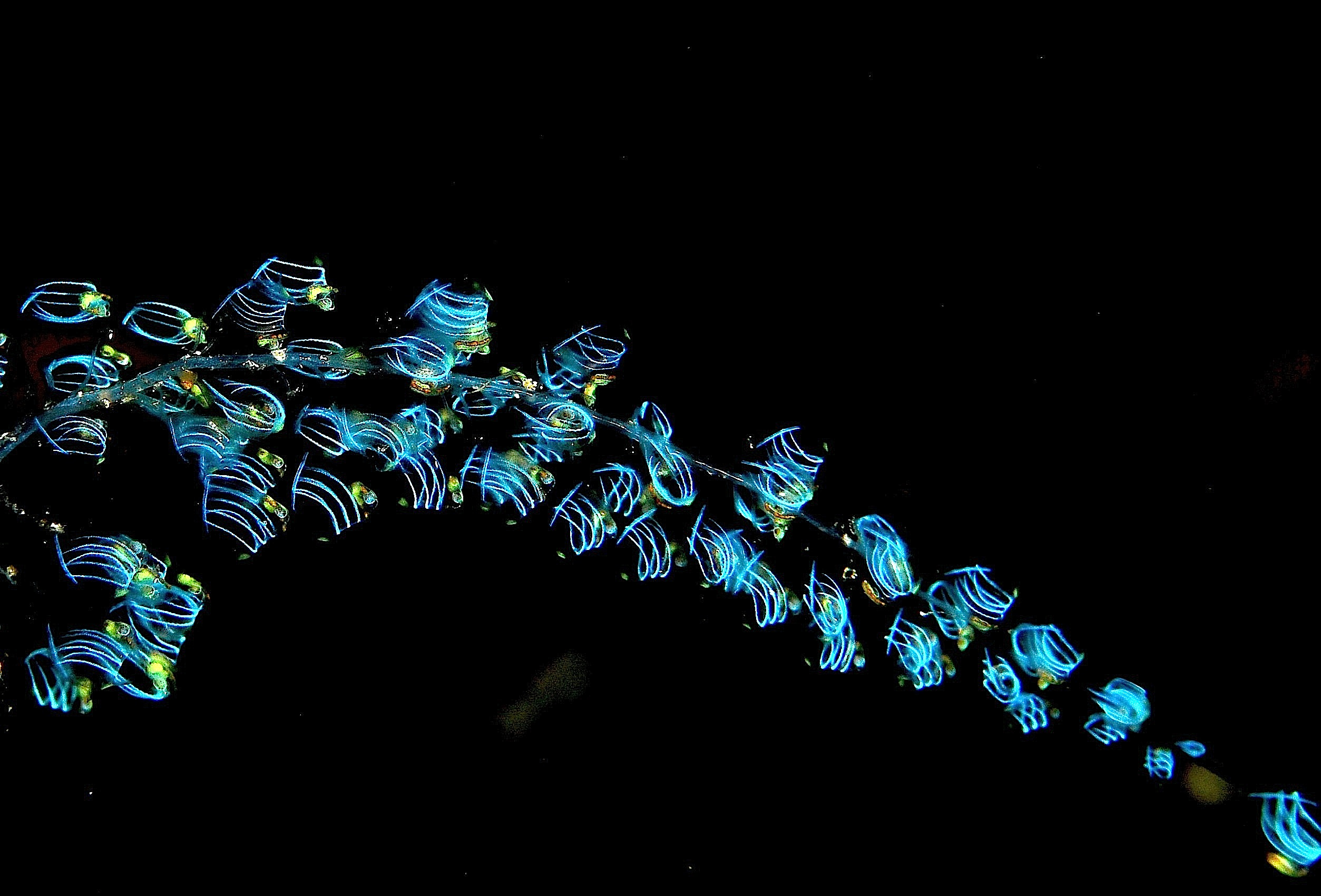 Thaliaceaelegant